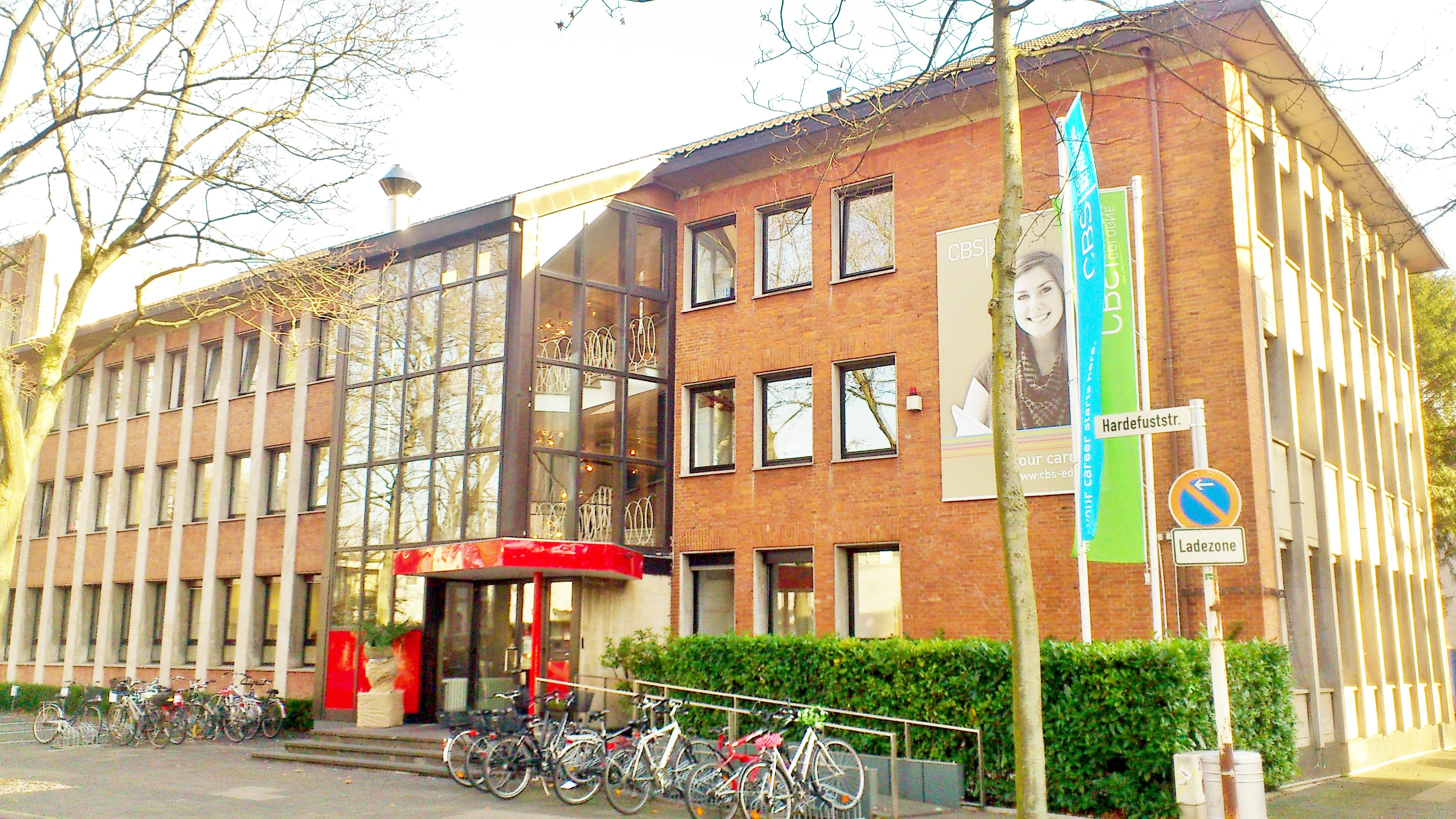 Main entrance at Cologne Business School CBS